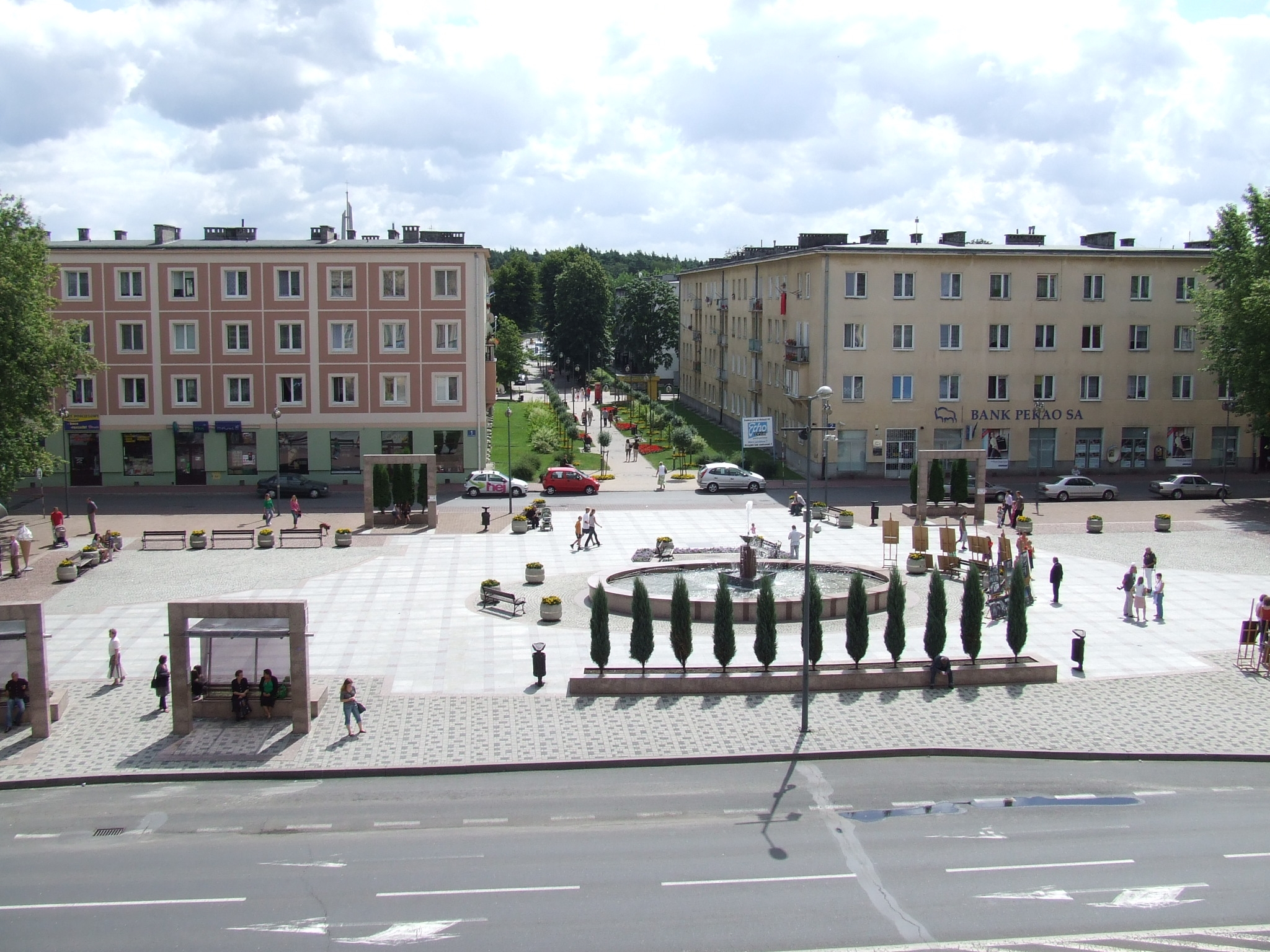 Square of Armia Krajowa (Home Army) in Mielec, Poland